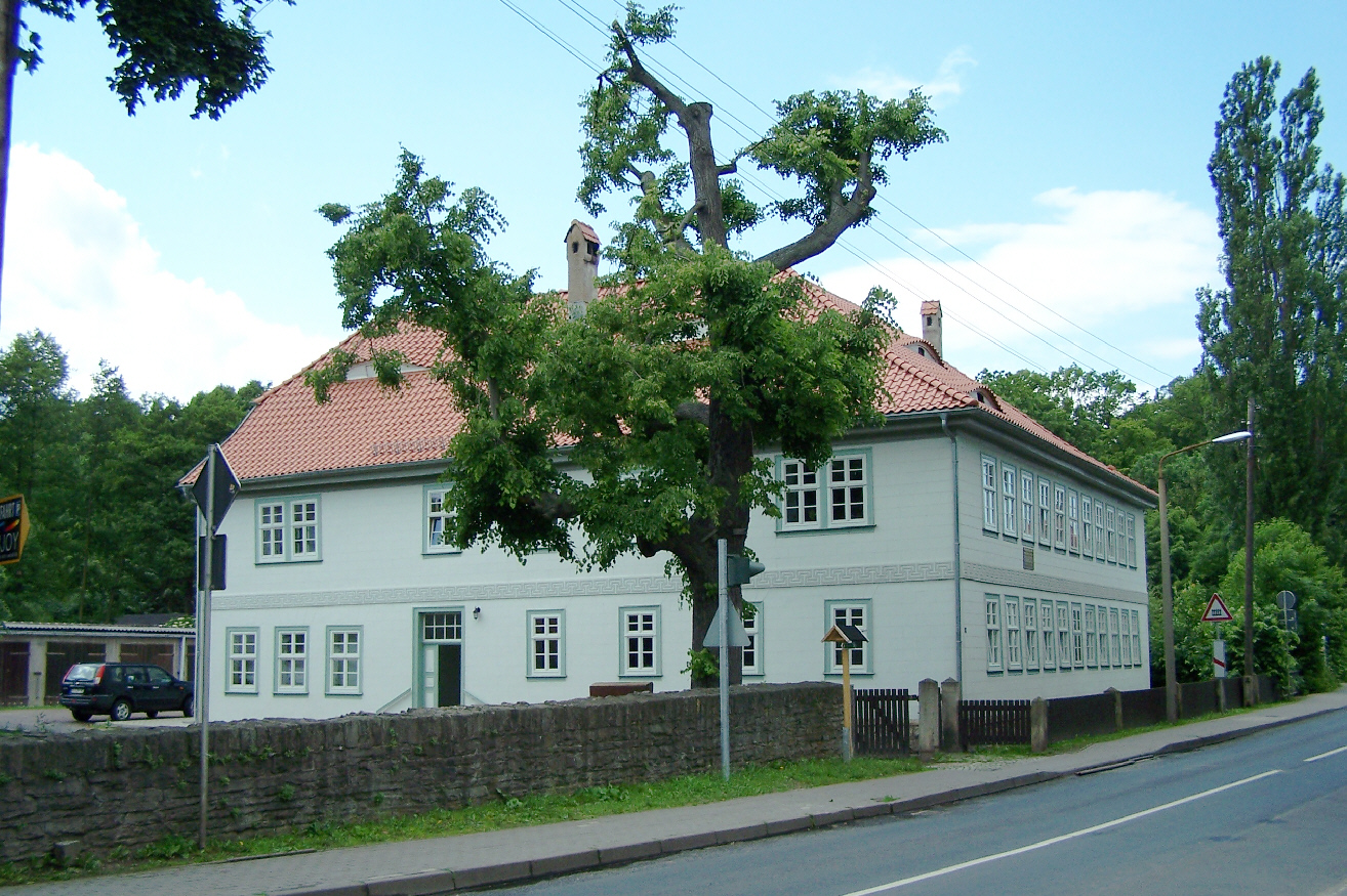 The first school building in Schnepfenthal.